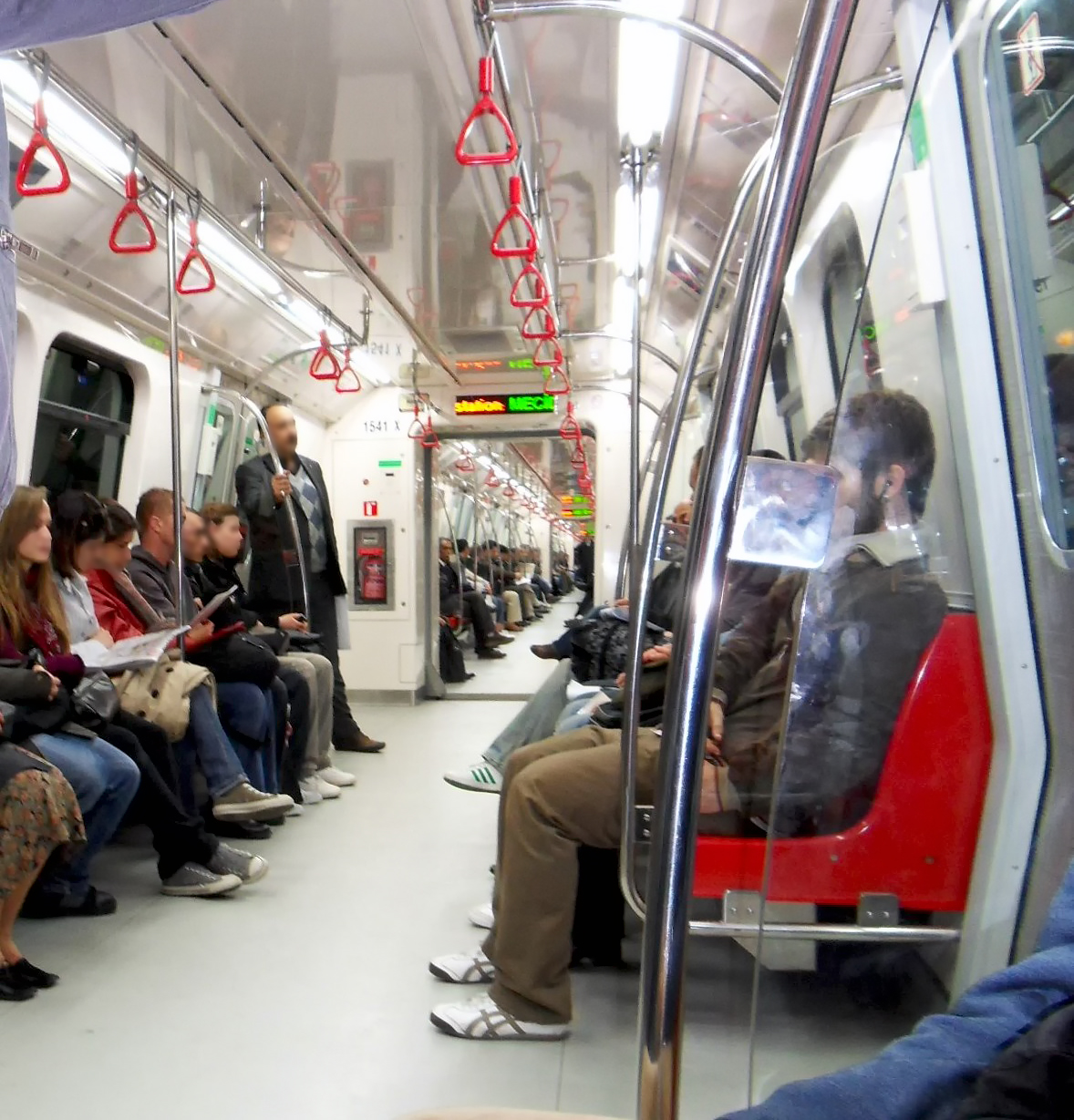 Interrior of M2 rolling stocks